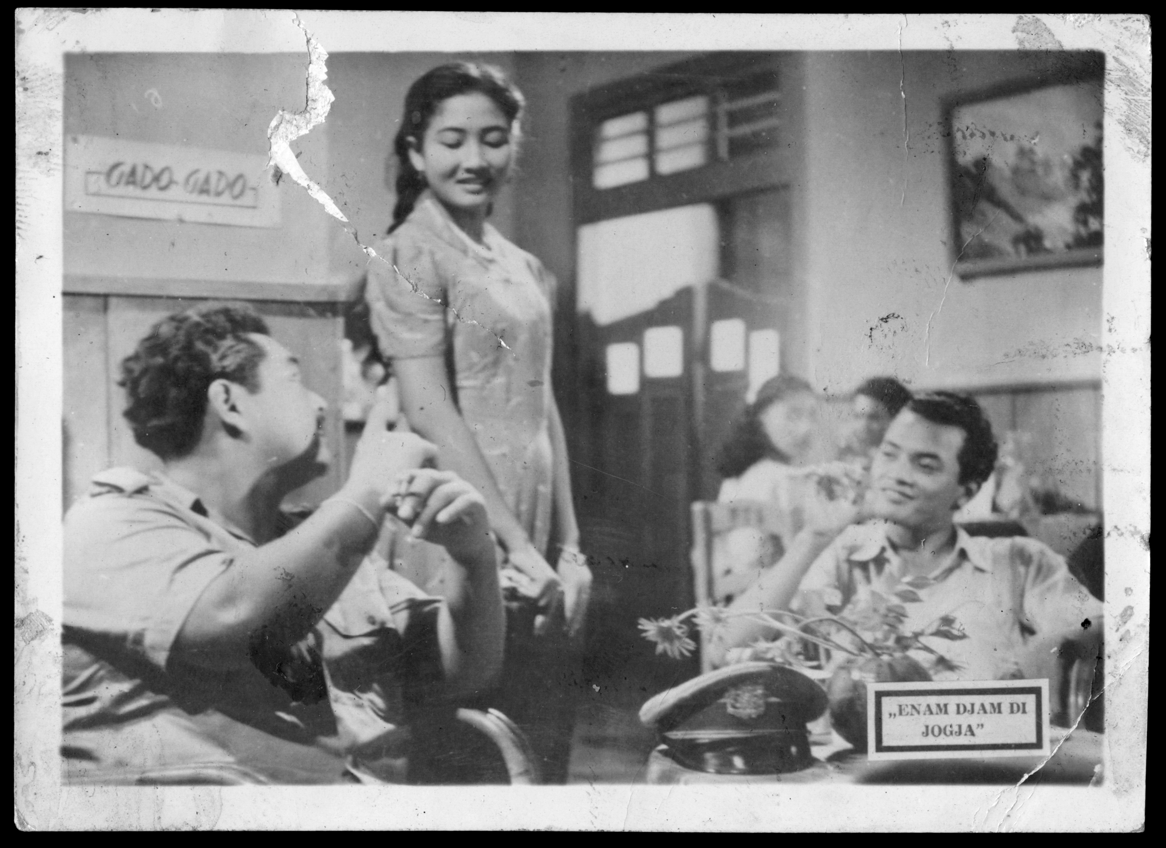 Promotional Still for Enam Djam Di Djogdja (1951)